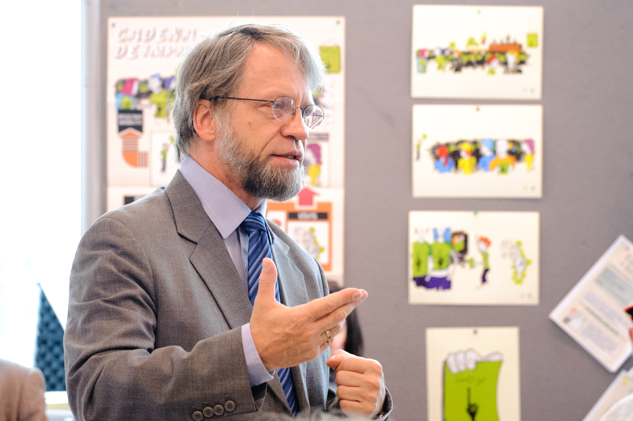 Antanas Mockus (Former mayor of Bogota, Colombia) radius of art - Konferenz Foto: Stephan Röhl